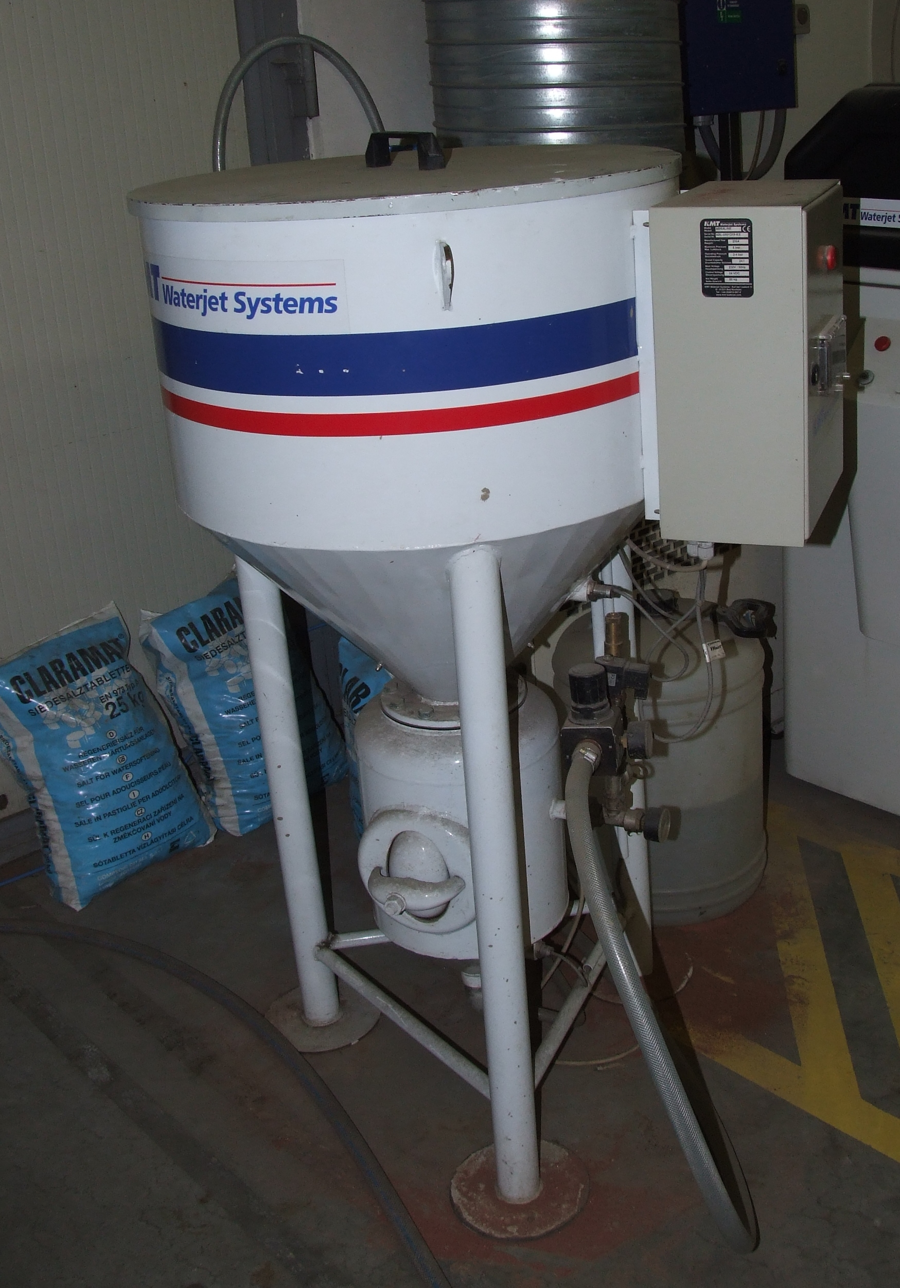 Abrasive feeder machine (external) for water jet cutter.